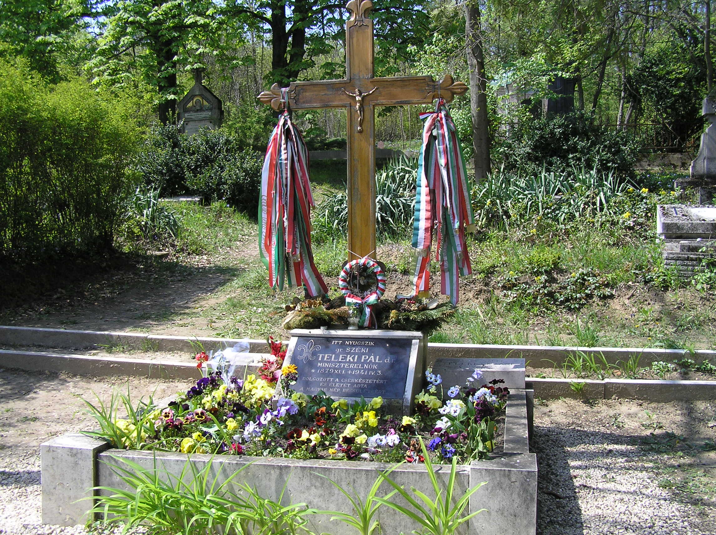 Funeral tomb of former Hungarian Prime Minister Pál Teleki